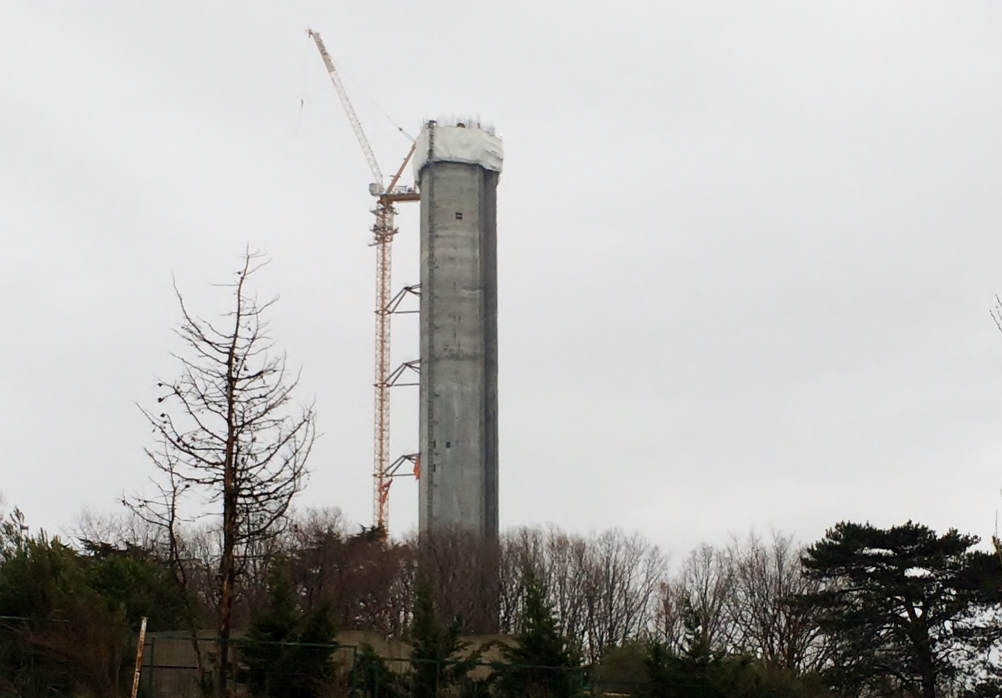 İstanbul Küçük Çamlıca TV-Radio Tower, construction, Feb 2017